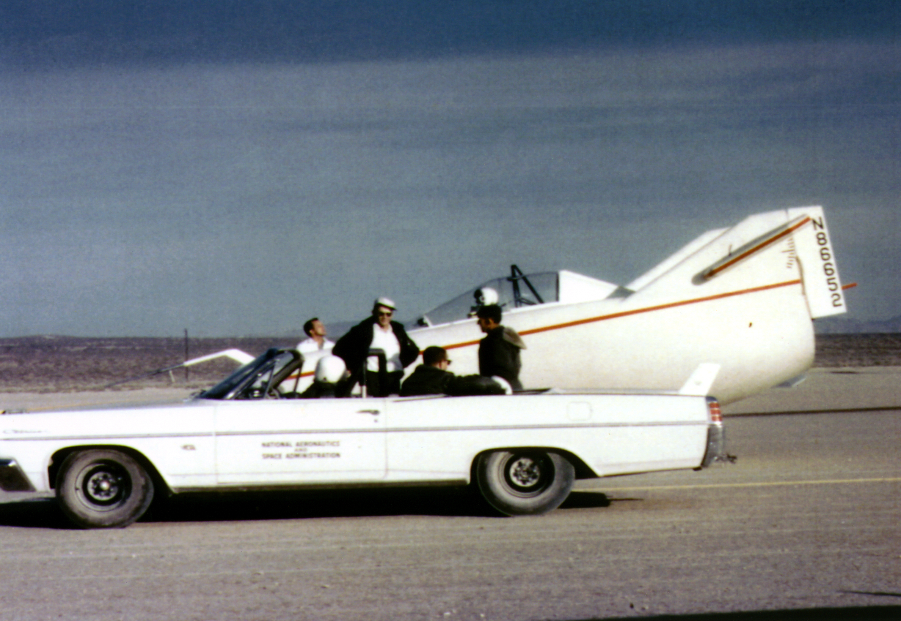 The M2-F1, the unlikely forefather of the NASA space shuttle, was the world's first manned lifting body. Made of wood with an internal framework of steel tubes and no wings, the M2-F1 looked more like a bathtub sitting on a tricycle than an aircraft. Conceived by NASA engineers at the Ames Research Center, the lifting body was intended as an alternative to a capsule spacecraft, which returned to Earth dangling under a parachute. A lifting body was not a conventional winged aircraft, but rather, used air flowing over its fuselage to generate lift. This design allowed it to land on a runway like a conventional airplane. Because the M2-F1 was unpowered, a tow vehicle was required. The solution: a 1963 Pontiac convertible, which when modified, was capable of reaching 110 miles per hour with the M2-F1 in tow.